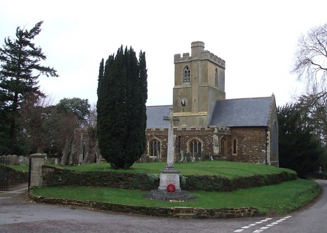 St. Mary the Virgin, Great Brickhill Great Brickhill is a quiet village with some fine old houses and this church dating back to the C13th. In the foreground can be seen the War Memorial (SP90143075)